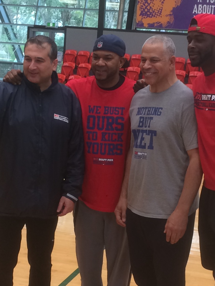 Ricky Grace (second from the left) in Perth with the No1 Draft Pick Basketball Academy